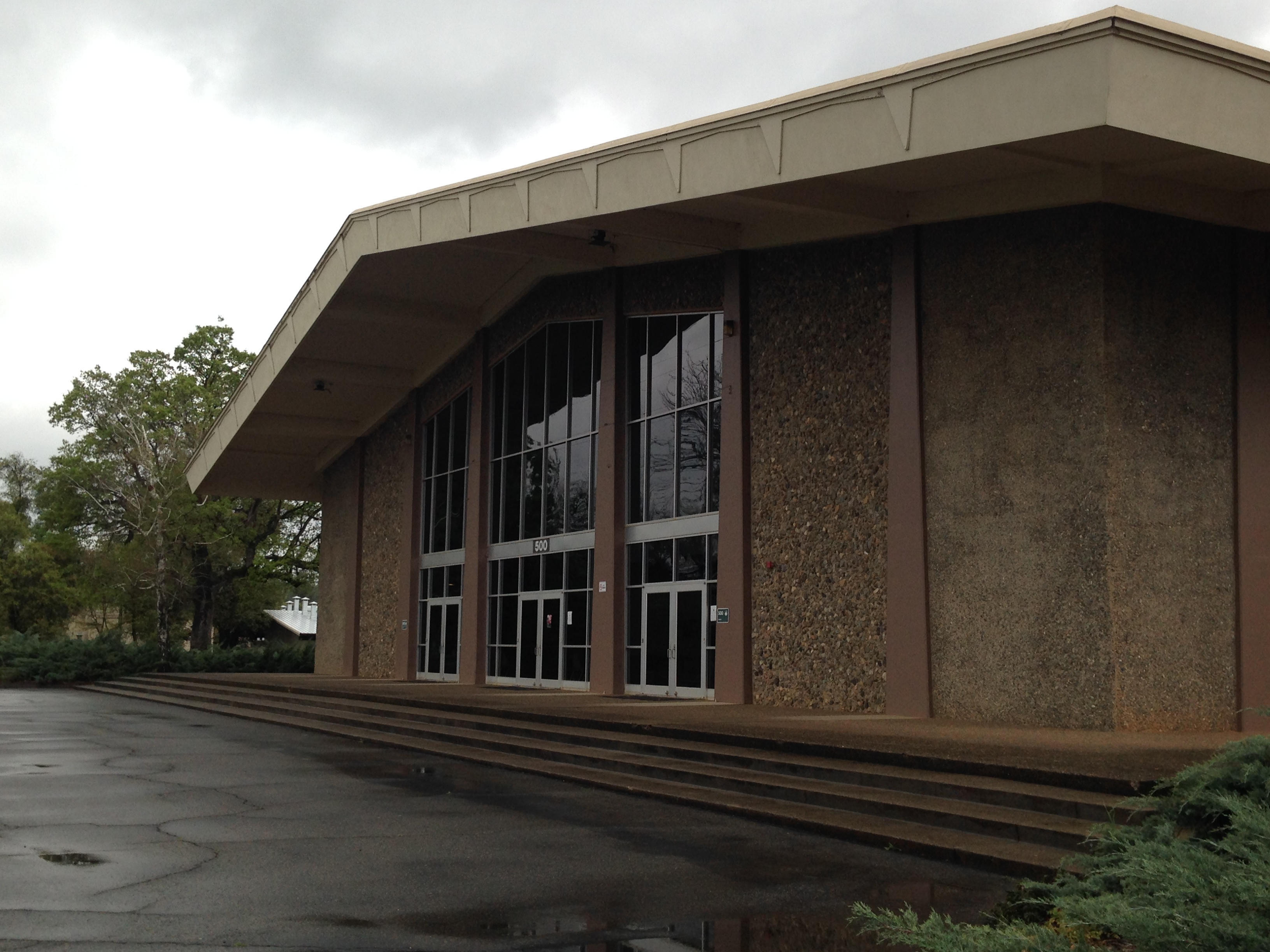 Shasta College Amphitheatre